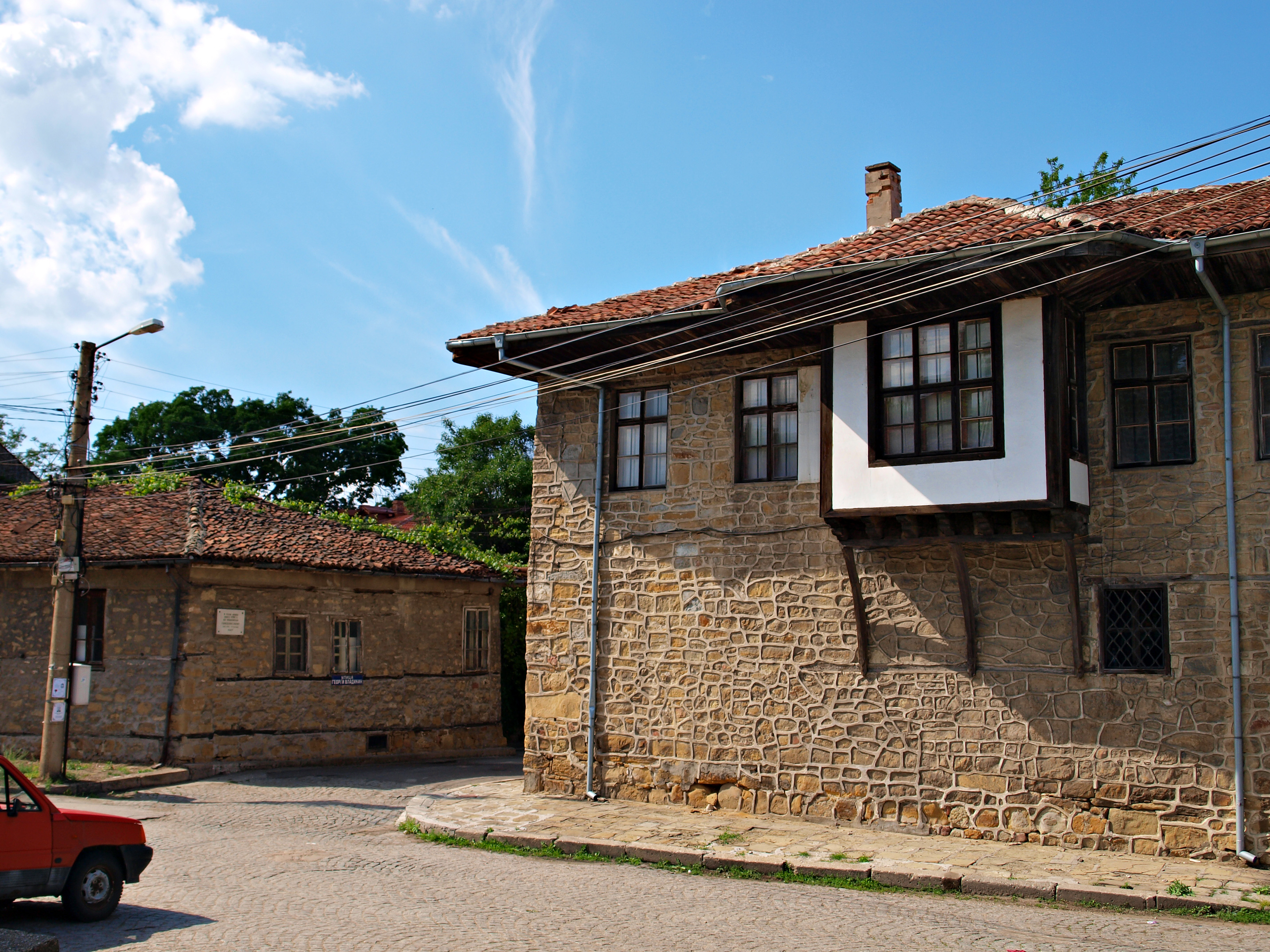 The house, where the Treaty of Svishtov was signed in 1791, is the little one on the left.